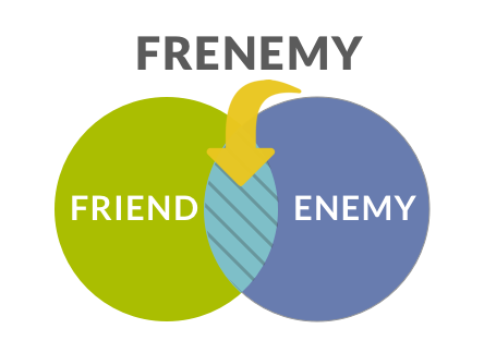 Frenemy Diagram